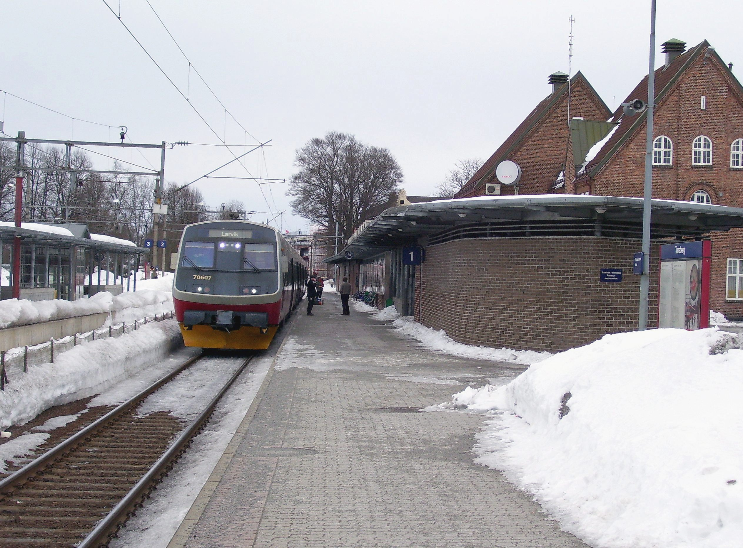 Tønsberg railwaystation in Norway. Winter 2006